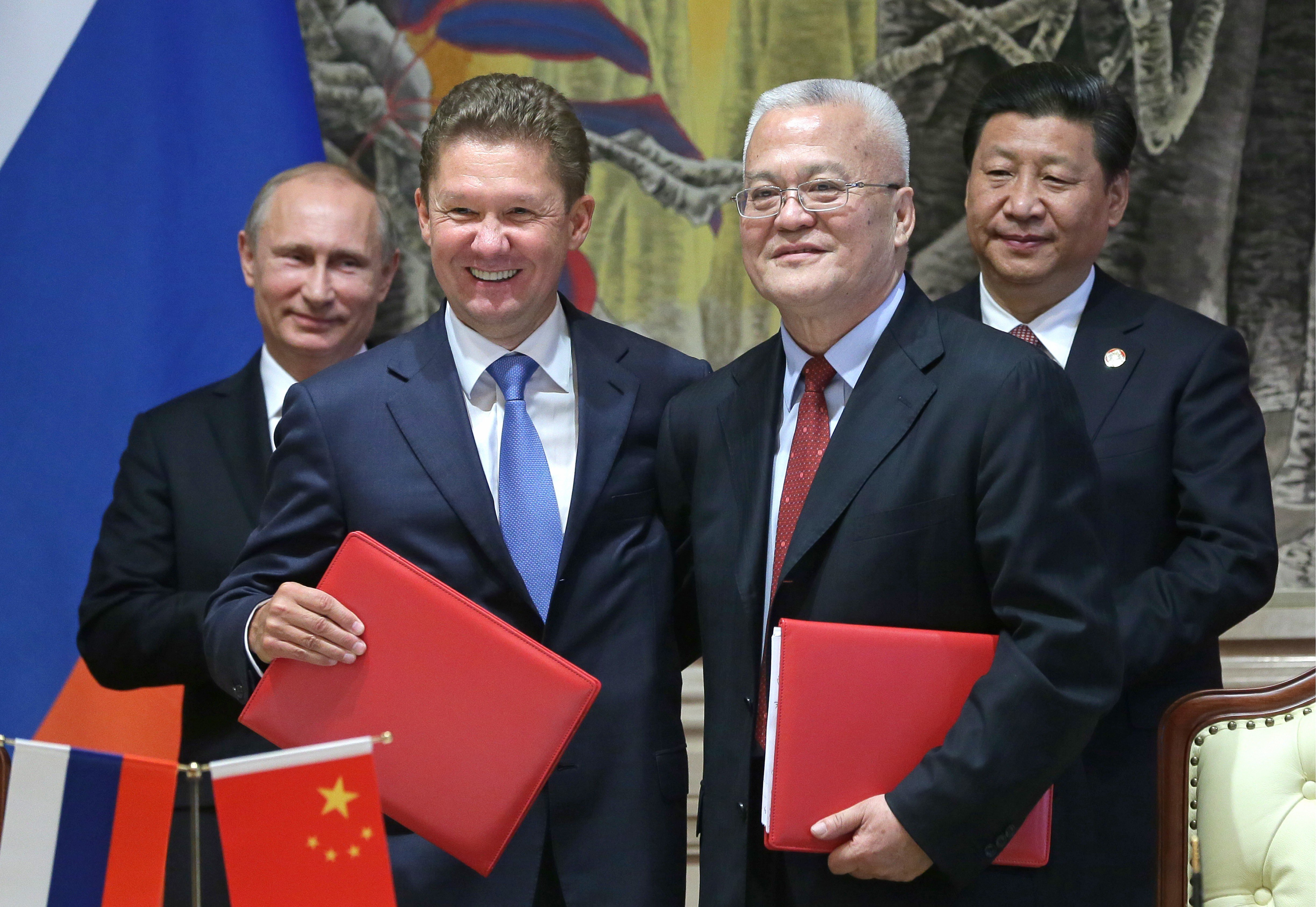 Alexey Miller on behalf of Russia and China sign a USD$ 400 billion dollar gas deal